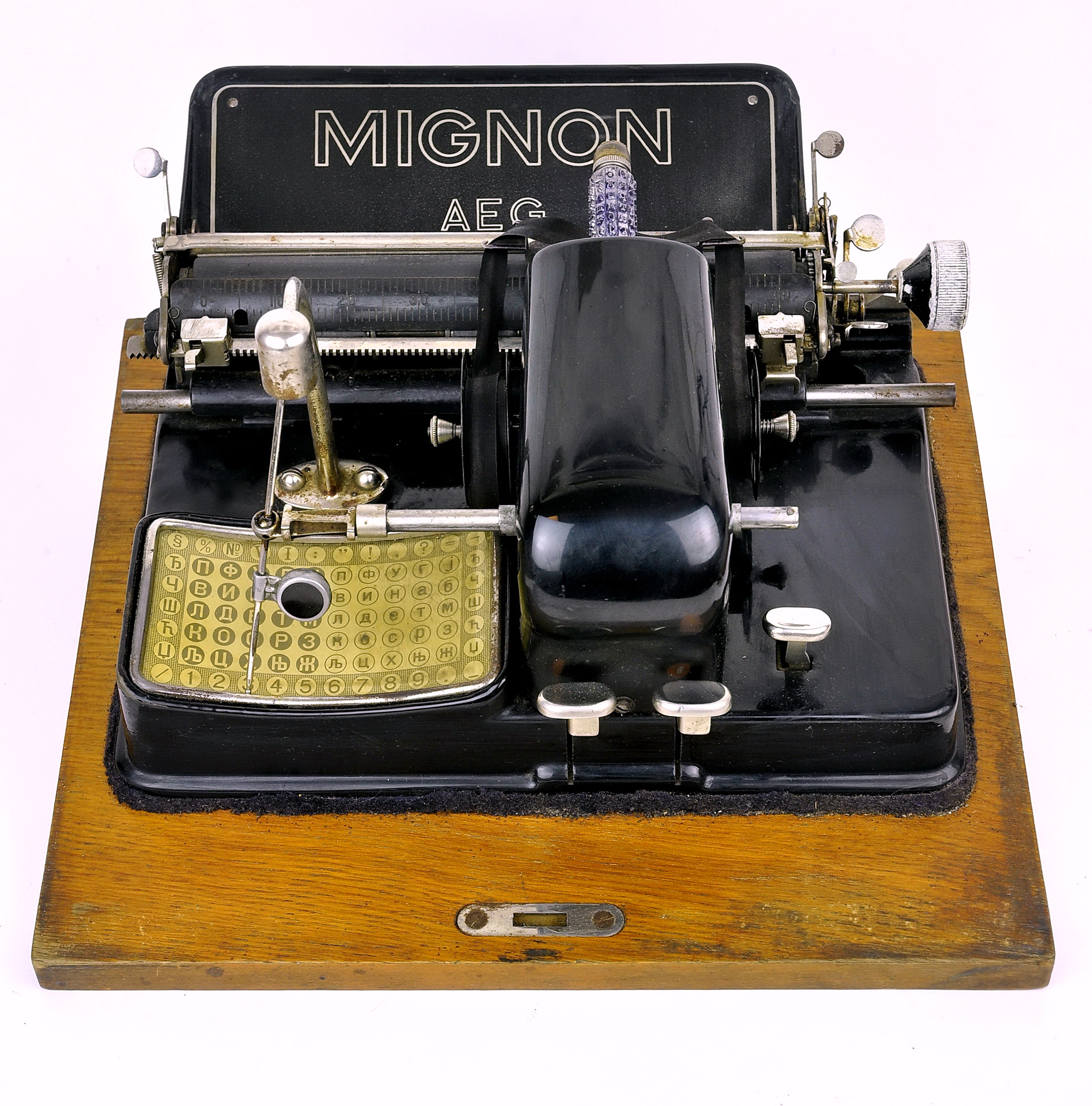 AEG model Mignon 3 typewriter. This model can be found in the Museum of Science and Technology Belgrade.